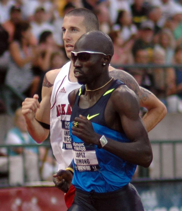 Lopez Lomong runs in the first round of the men's 1500 meter run at the US Olympic Team Trials-Track & Field, held at Hayward Field on the campus of the University of Oregon in Eugene, Oregon.